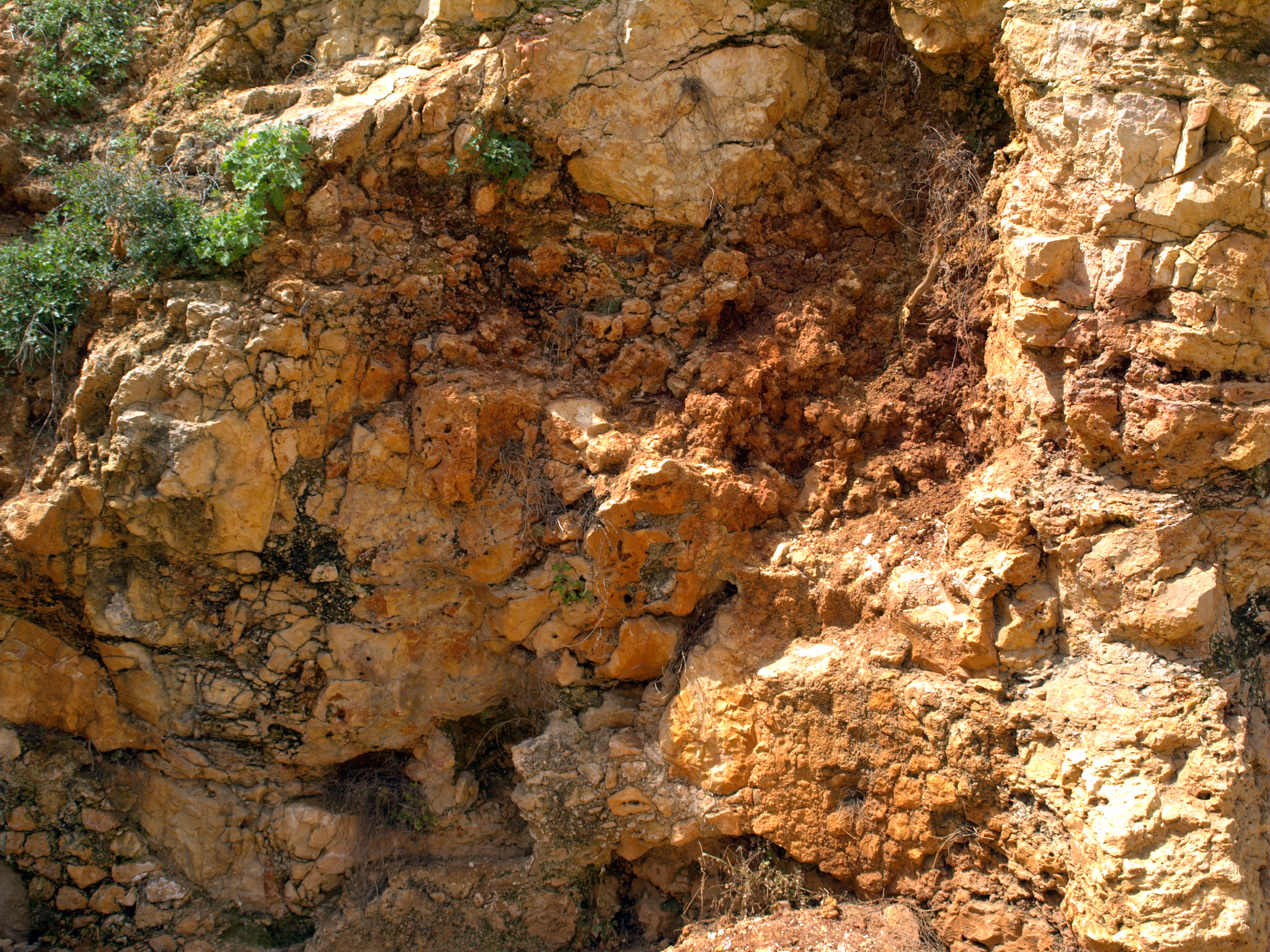 Jerusalem stone in the rough in the old city of Jerusalem.